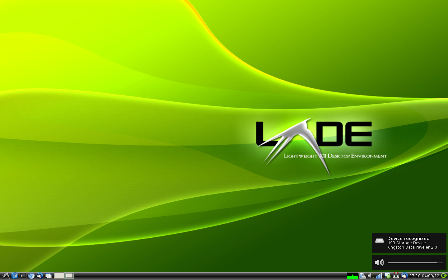 Foresight Linux screenshot